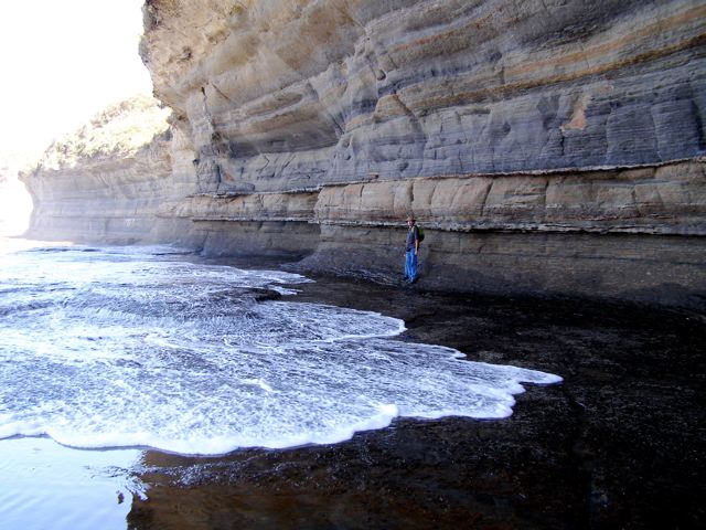 Rock strata near Depot Beach, New South Wales Photo: D.M. Vernon Date: 2006